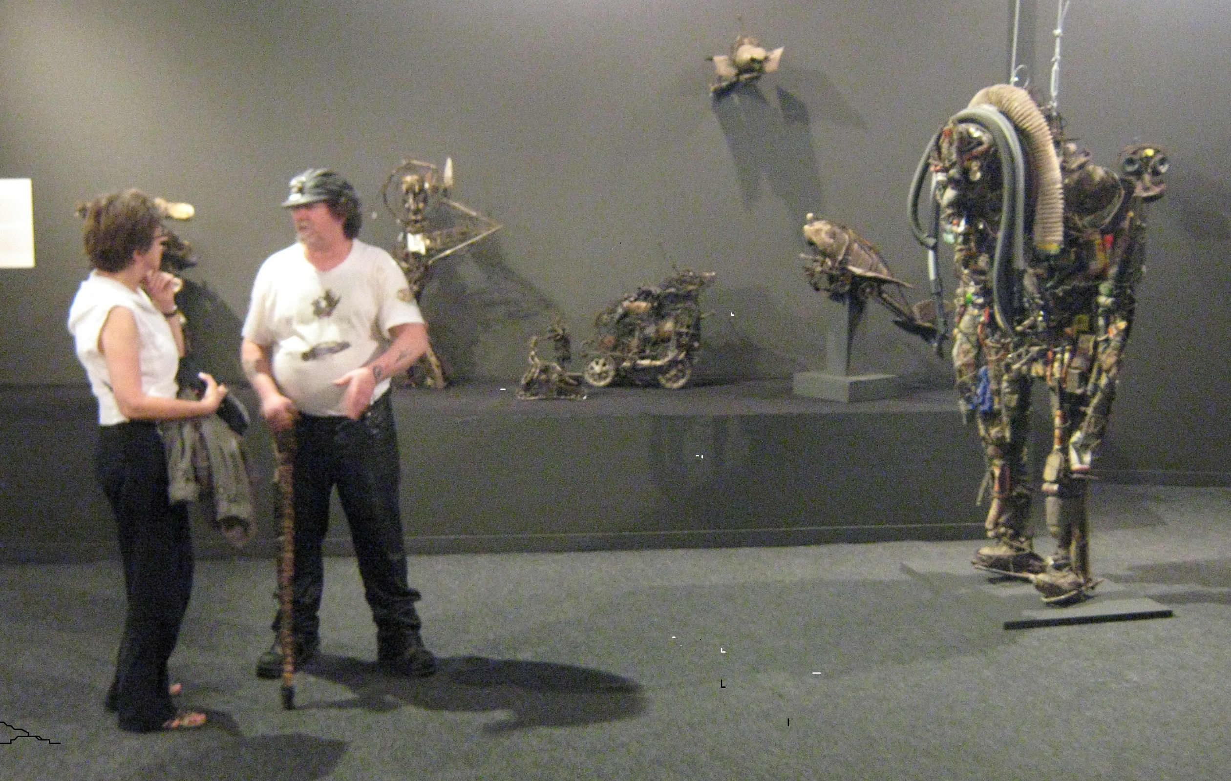 Outsider Artist Markus Meurer at his works of art in Halle Saint-Pierre, Paris